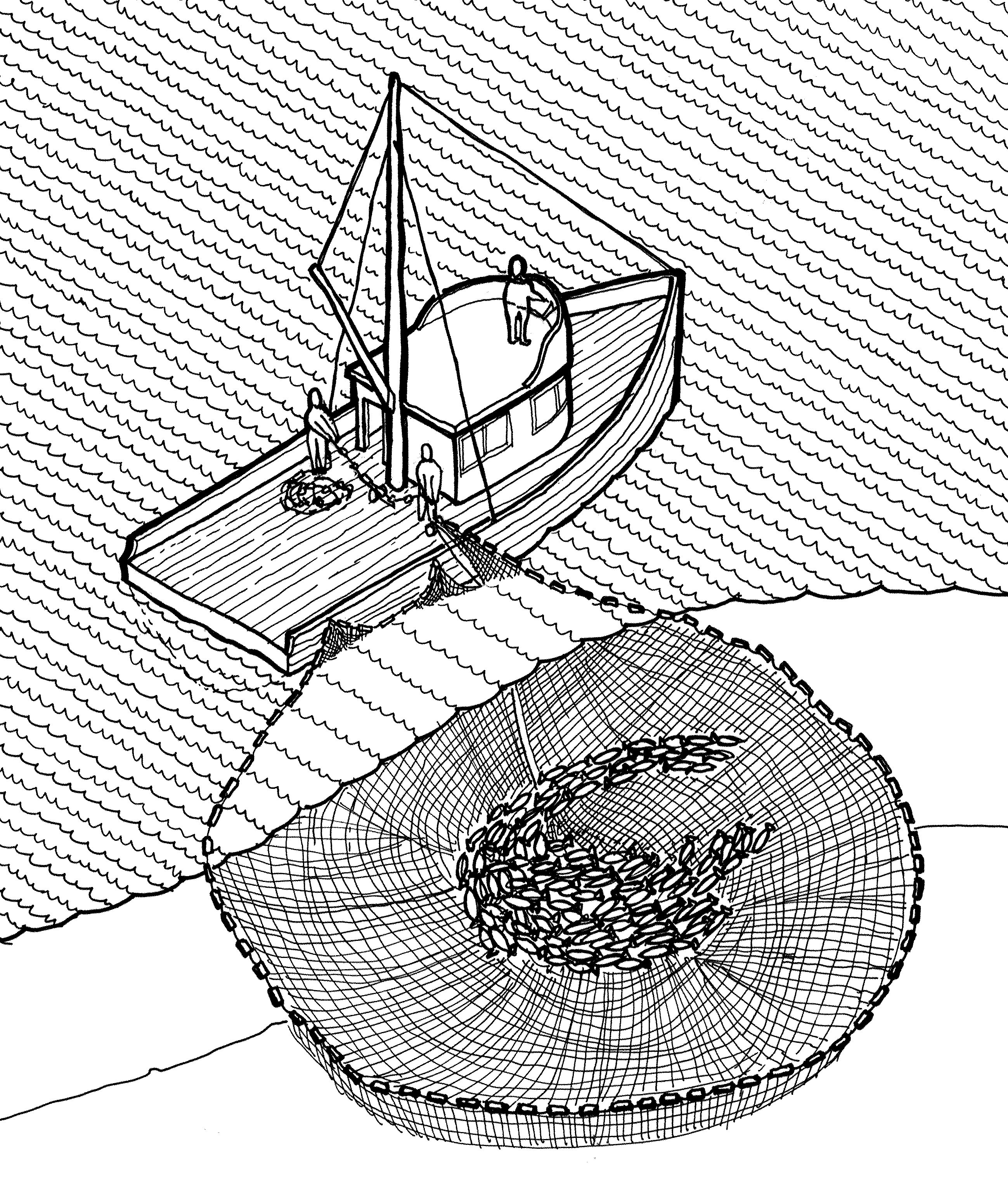 The first purse seines were light nets cast from heavy rowboats. In 1905 gas-powered engines were introduced and by 1911 the fleet used larger boats becoming less dependent on the tide; typical length averaged 55 to 70 feet. Salmon purse seines nets were made from cotton web coated with creosote and ranged from 900 to 1,200 feet in length and 25 to 40 feet in depth. The skiff driver led the net around the salmon and back to the seiner. A pull on the purse line closed the bottom of the net. The fish were tightly packed in a small volume of net called a “money bag.” A brailer scooped fish into the boat; one brail could bring in 2,000 fish per hour. In southeast, purse seining accounted for three-quarters of the salmon harvest. Survey number HAER AK-28